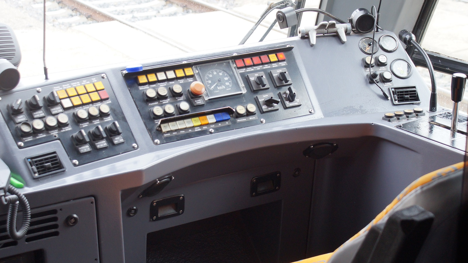 GW Train RegioSprinter, dashboard, 2020